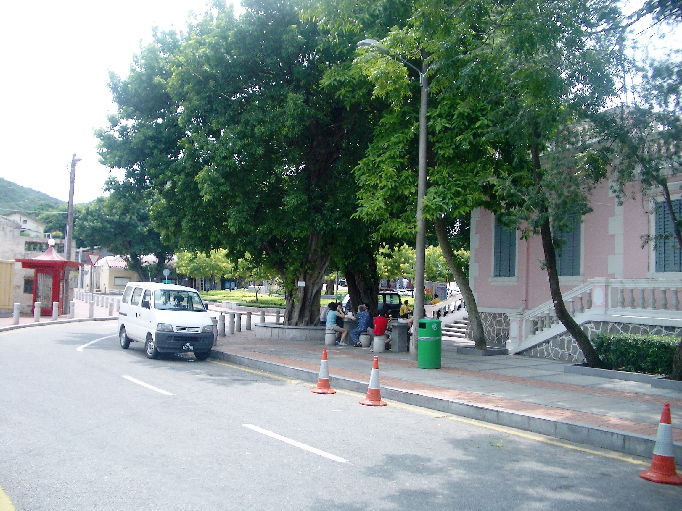 The Health Center of Coloane (right) seen from Lord Stow's Bakery, Coloane, Macau, famous for its Portuguese egg tarts